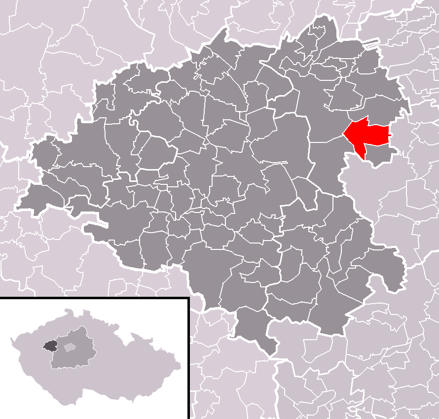 Location of Nové Strašecí town within Rakovník District and (identical) administrative area of Rakovník as a Municipality with Extended Competence.